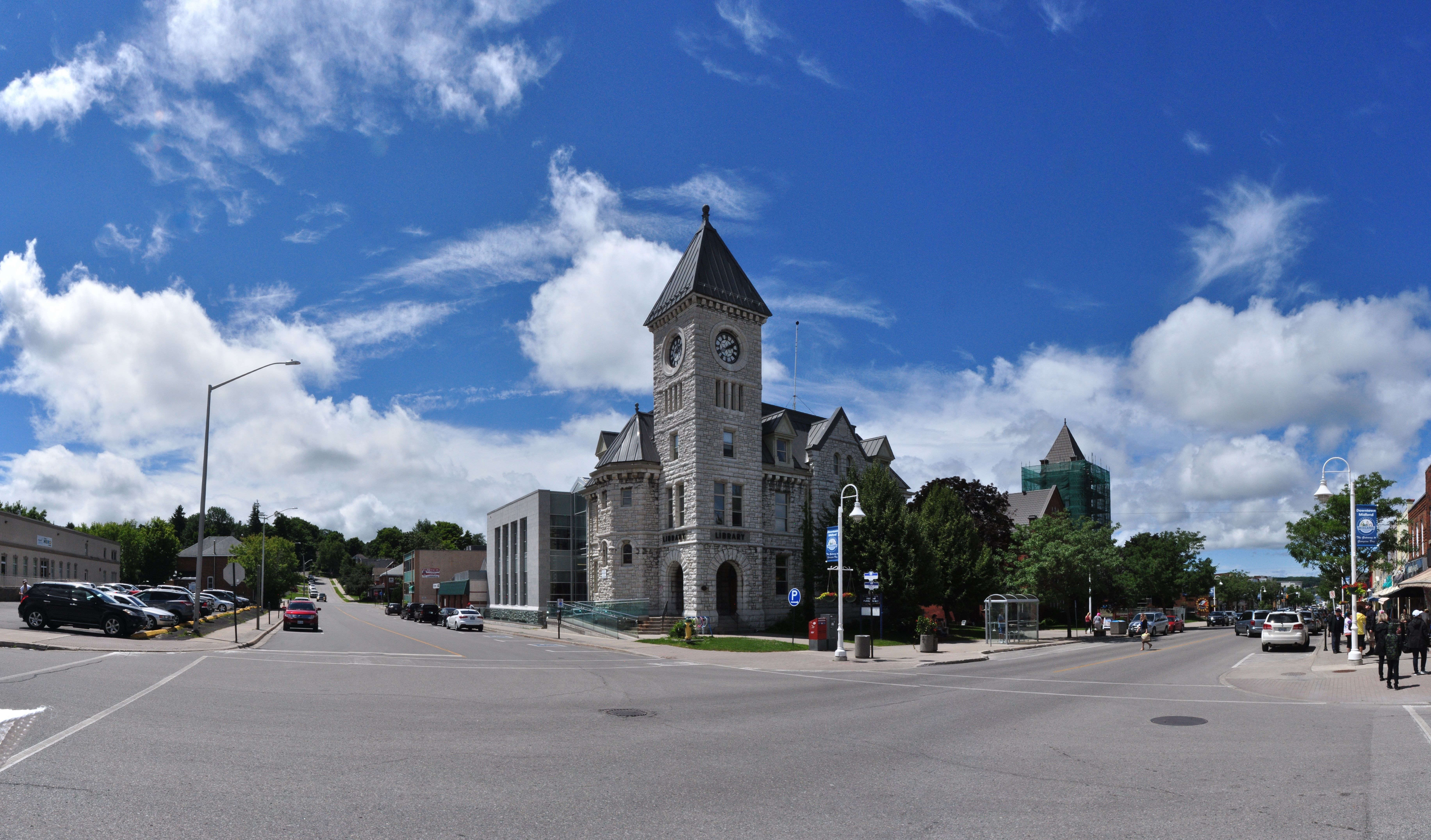 Town Library in Midland, Ontario